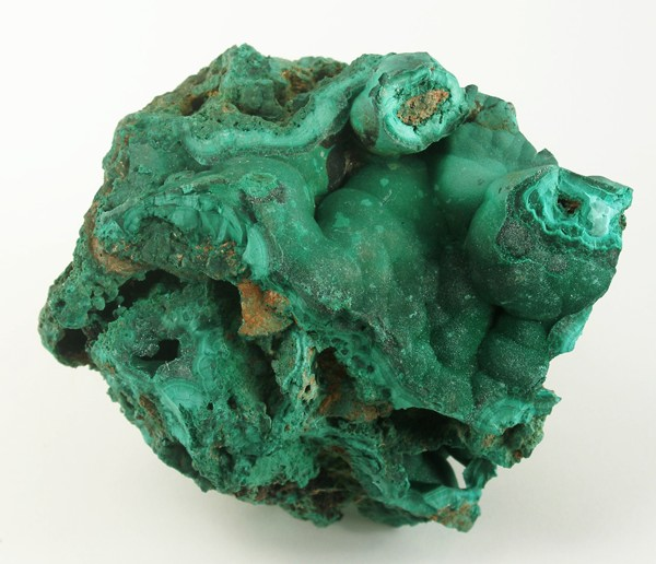 Malachite Locality: Middle Urals, Urals Region, Russia (Locality at ) Size: 7.8 x 7.4 x 5.4 cm. An old-time, fine specimen of solid malachite from the Ural Mountains of Russia. The very vuggy, lighter colored, banded malachite is topped by darker green, botryoidal malachite. Very interesting accents are the tiny, sparkly, primary malachite on the botryoids. A classic specimen, accompanied by an old label. This piece certainly dates to prior to World War I. Weighs at 316 grams. Ex. Mullane Collection.